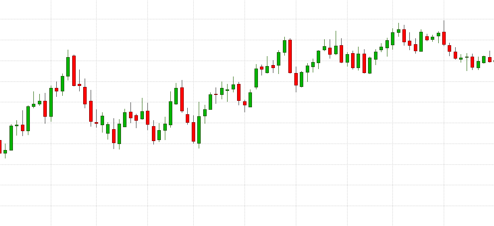 Candlesticks chart